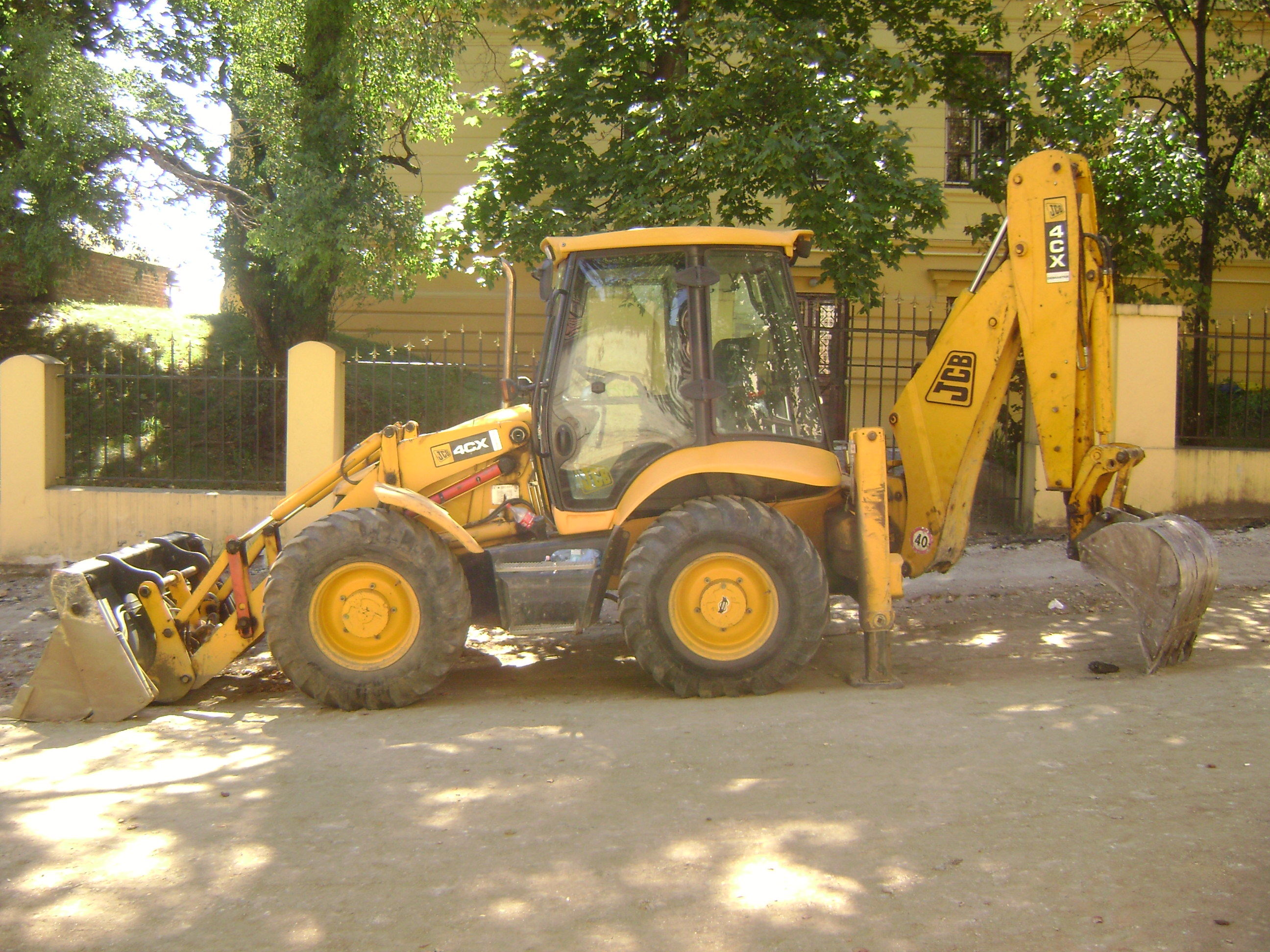 A JCB 4CX backhoe loader seen in Sibiu, România